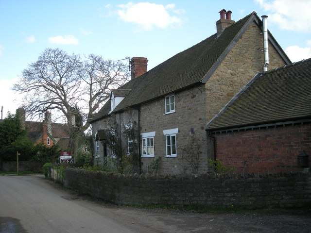 Cottage For Sale